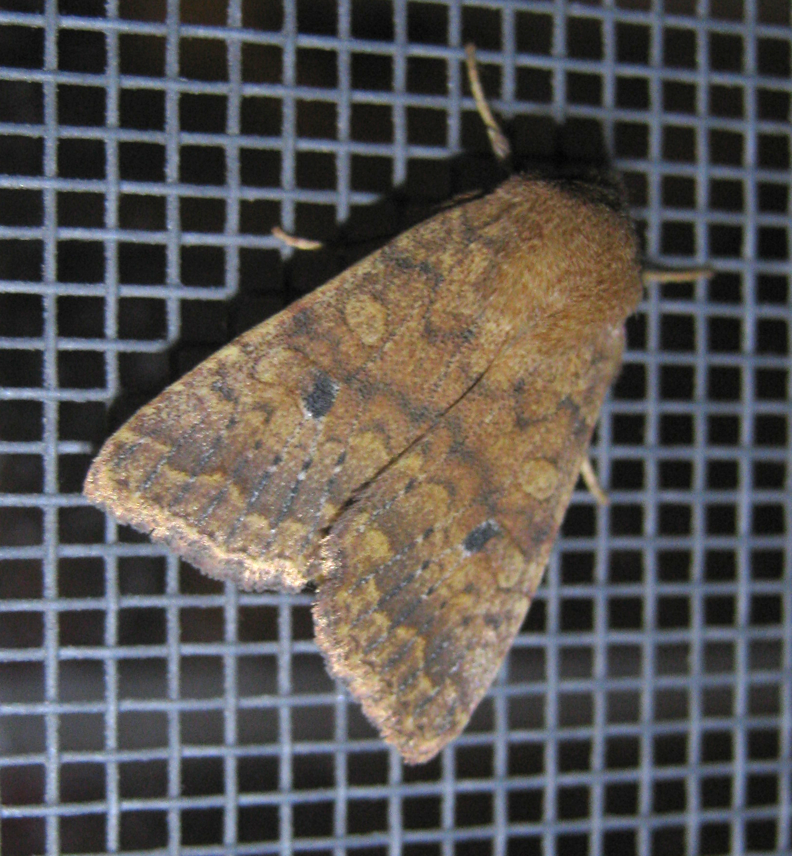 Noctuid moth Sunira bicolorago (Bicolored Sallow - Hodges#9957). Pocono Environmental Education Center, Pike County, Pennsylvania, USA.